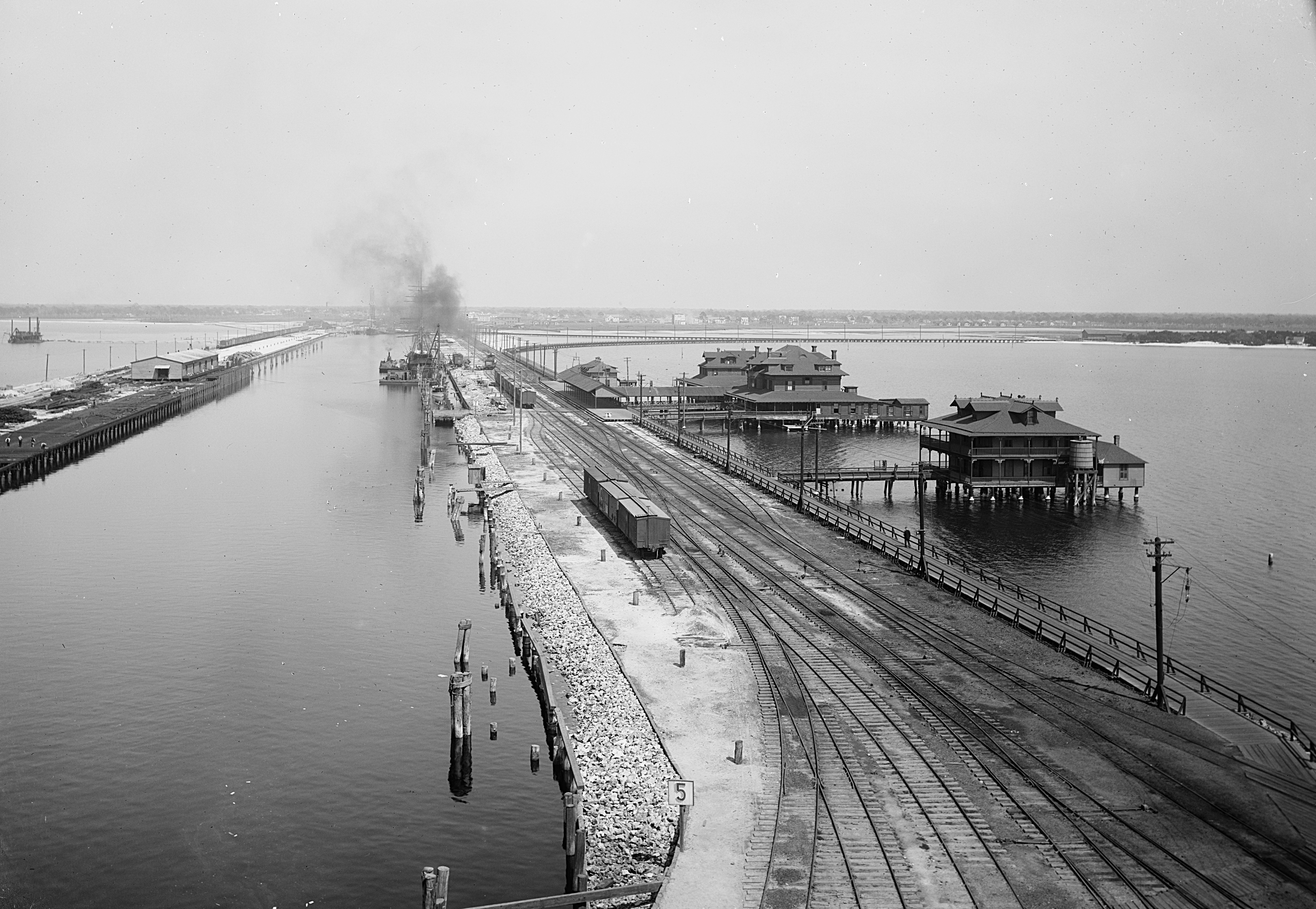 Title: [Tampa Inn and docks, Tampa, Fla.] Related Names: Detroit Publishing Co. , publisher Date Created/Published: [between 1880 and 1901] Medium: 1 negative : glass ; 8 x 10 in. Reproduction Number: LC-D4-5848 (b&w glass neg.) Call Number: LC-D4-5848 [P&P] This image is available from the United States Library of Congress's Prints and Photographs division under the digital ID det1994004517.This tag does not indicate the copyright status of the attached work. A normal copyright tag is still required. See Commons:Licensing for more information.